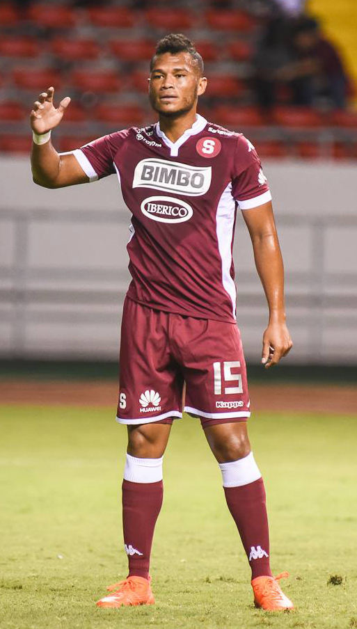 Rolando Blackburn, player for Deportivo Saprissa in July, 2016.